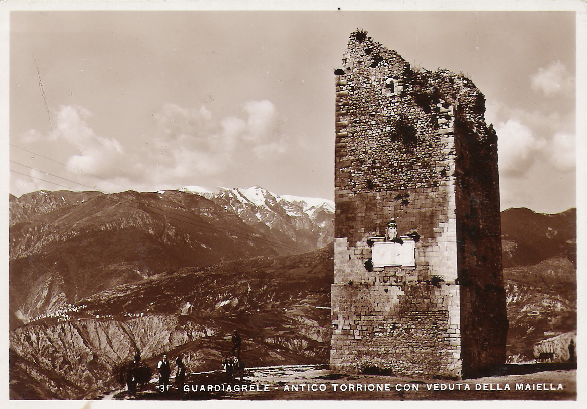 A photo from 1925 showing the Torrione Orsini in Guardiagrele, in the province of Chieti, Abruzzo